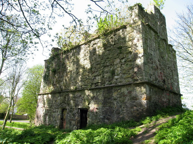 Doocot, North Berwick. Large lectern doocot in the grounds of the former North Berwick Abbey.